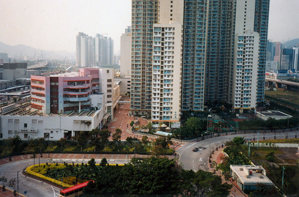 Overview of Fu Cheong Estate, Sham Shui Po, Kowloon, Hong Kong